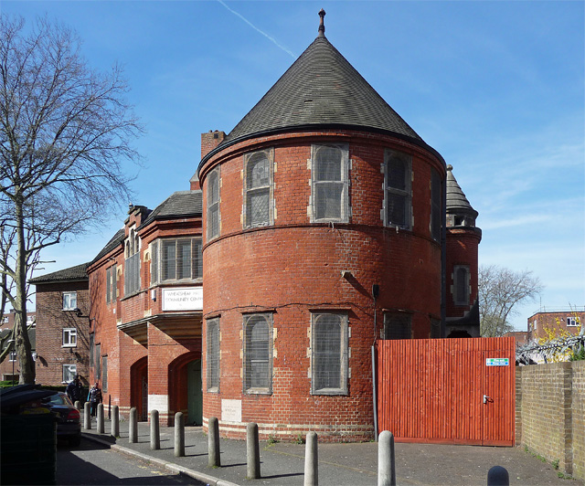 Community hall, Wheatsheaf Lane